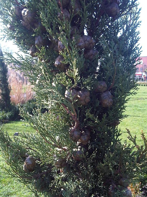 Mediterranean Cypress (Cupressus sempervirens) at Kew Gardens, England.